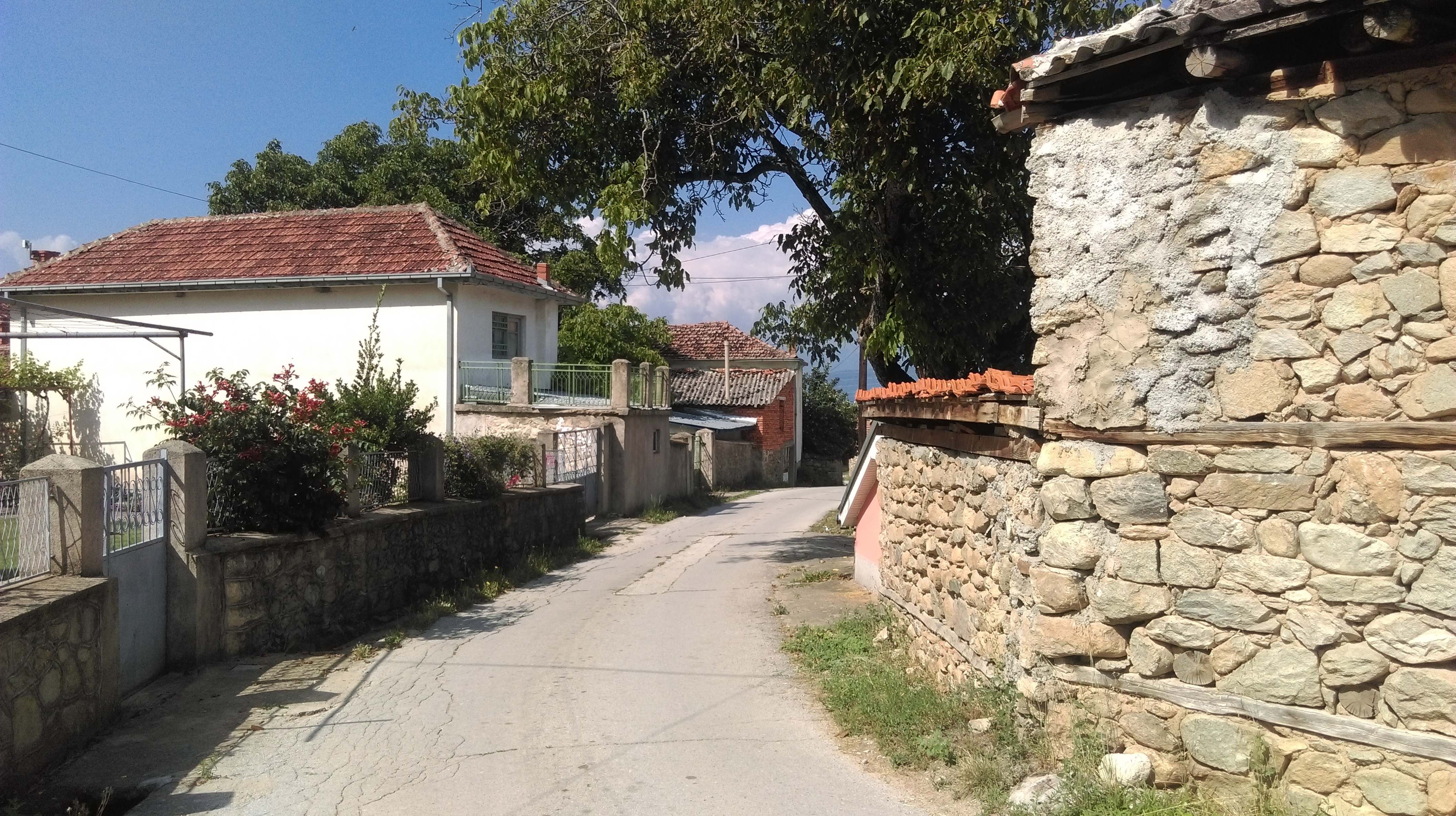 Krani village